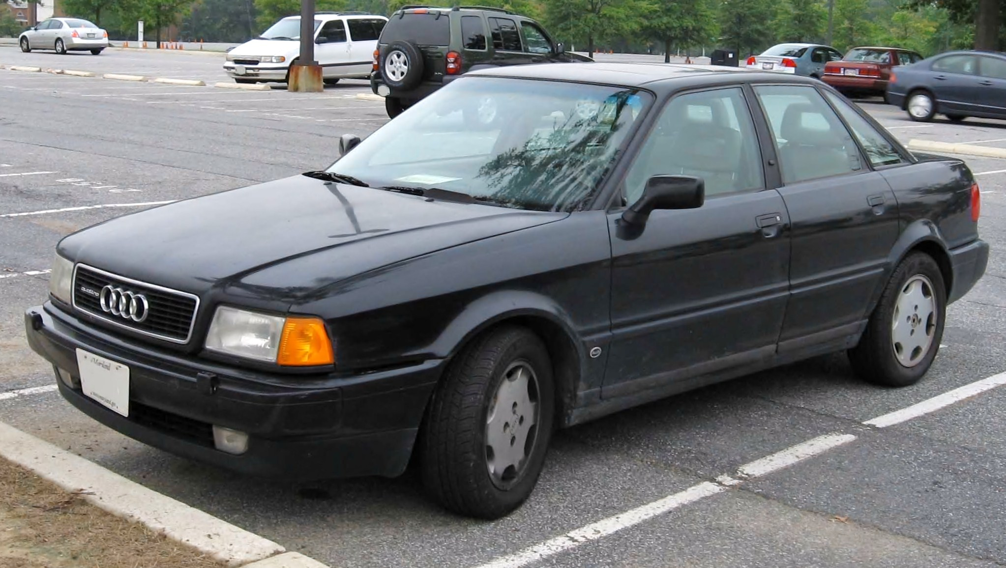 Audi 90 photographed in USA.